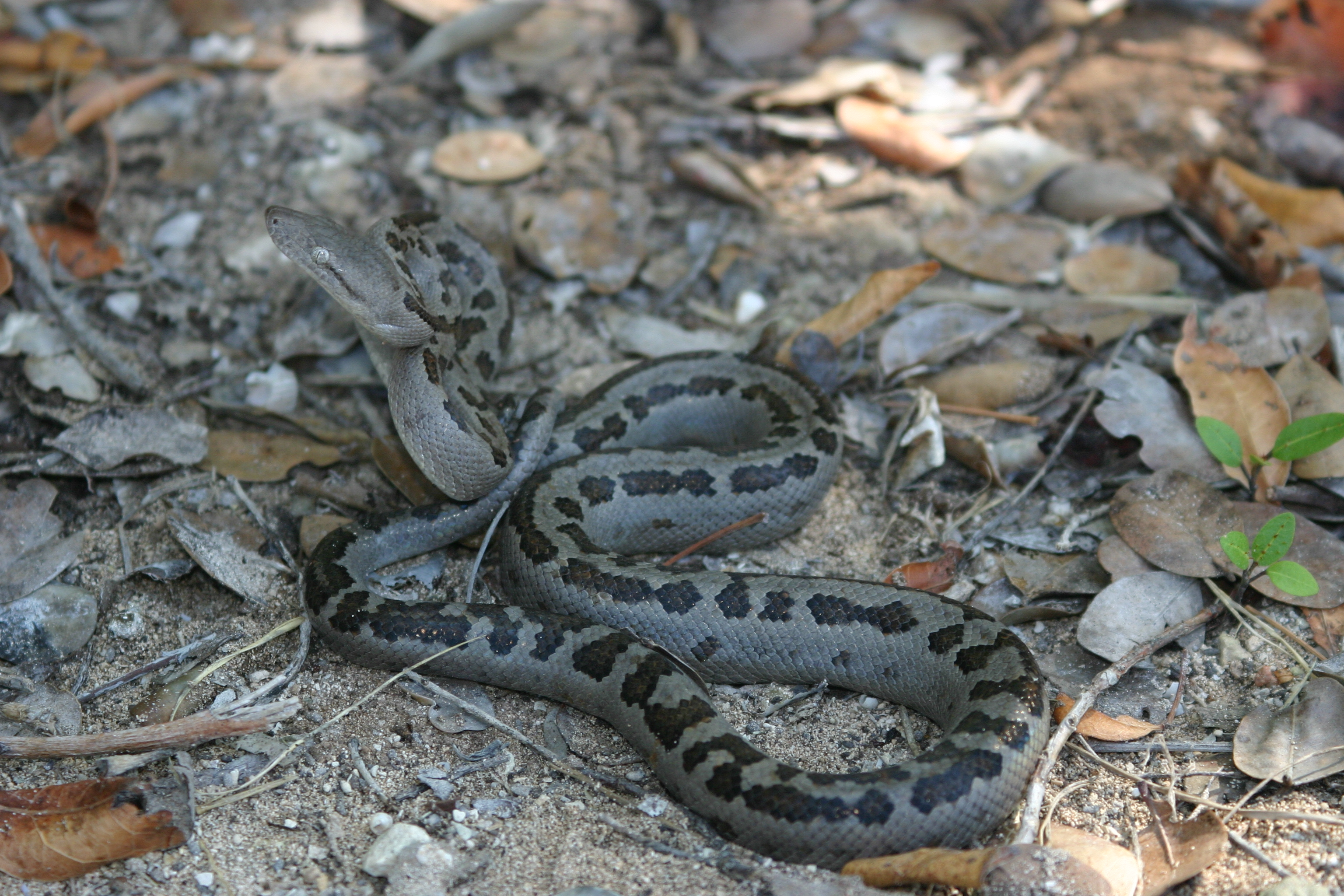 Turks Island Boa